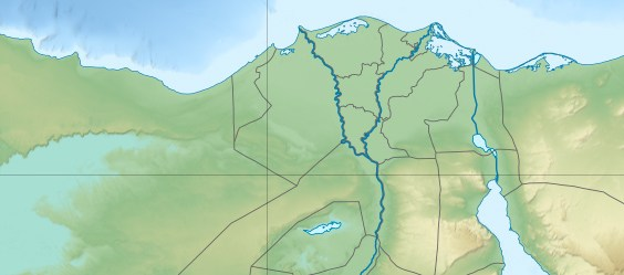 Location map of Lower Egypt Topographic scale: 1:4,932,000 (precision: 1,233 m) Equirectangular projection, WGS84 datum *Standard meridian: 030° 45' E *Central parallel: 26° 42' N Geographic limits of the map: * Top: 31° 45' N * Bottom: 29° 00' N * Left: 027° 00' E * Right: 034° 00' E